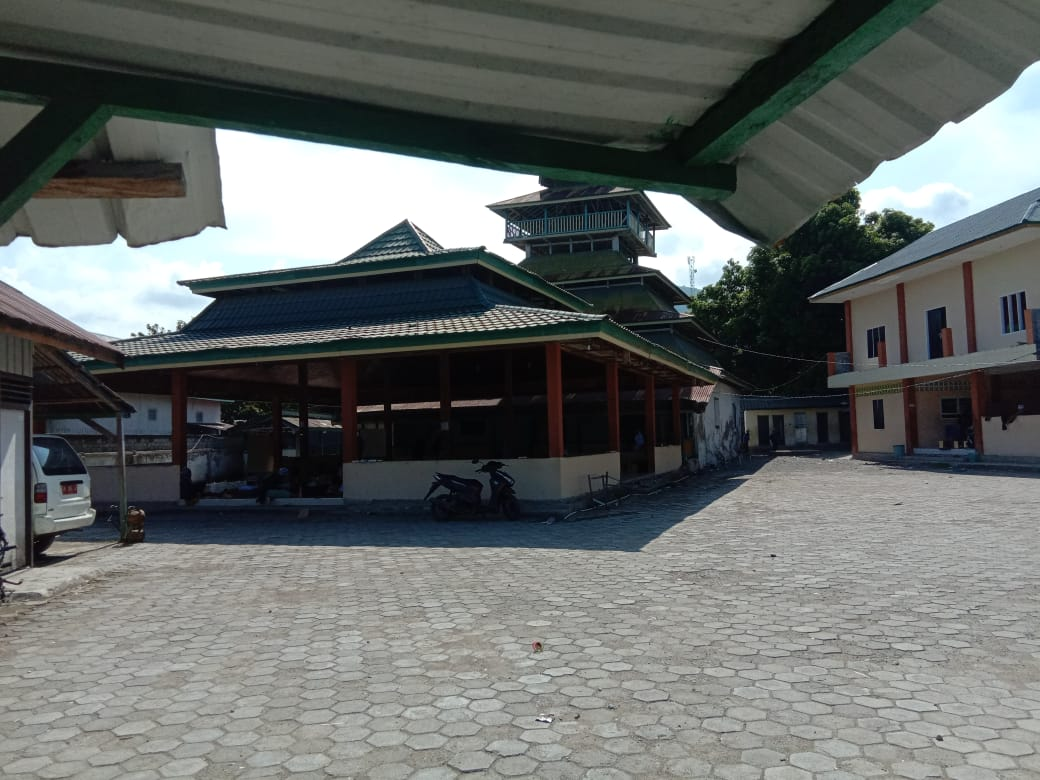 Bungku old mosque